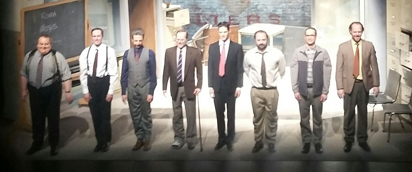 A post-show cheer of the cast for Glengarry Glen Ross inside the Rideau Vert theatre photographed in Montreal, Quebec, Canada.